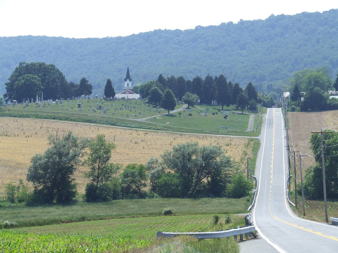 Maryland Route 17 entering Burkittsville, Maryland, USA